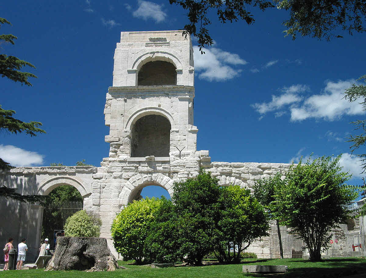 The south tower (Tour de Rolland), build as defense tower (6th - 8th century) of the Theatre antique seen from the park. View direction North